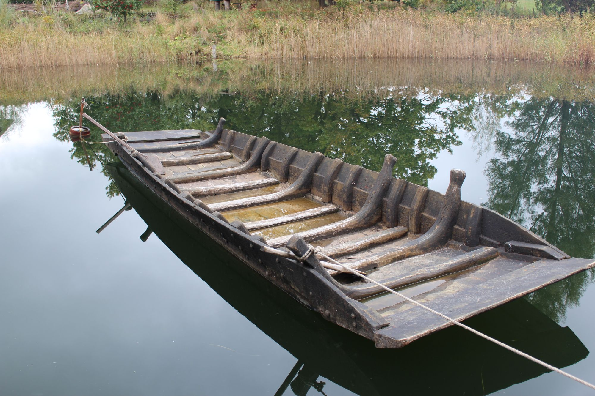 The Egernsund-barge found in 1966 in Southern Jutland. This is a reconstruction seen at Middelaldercentret at Nykøbing Falster, Denmark